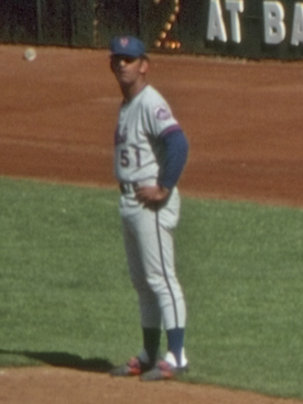 NY Mets' Lee Mazzilli is about to be out trying to steal home base. LA Dodgers' catcher Johnny Oates and pitcher Lance Rautzhan are protecting home while the Mets' Steve Henderson is at bat. The Mets won 8 to 5 at Dodger Stadium.. (Scanned from 35mm Kodachrome 64 slide)